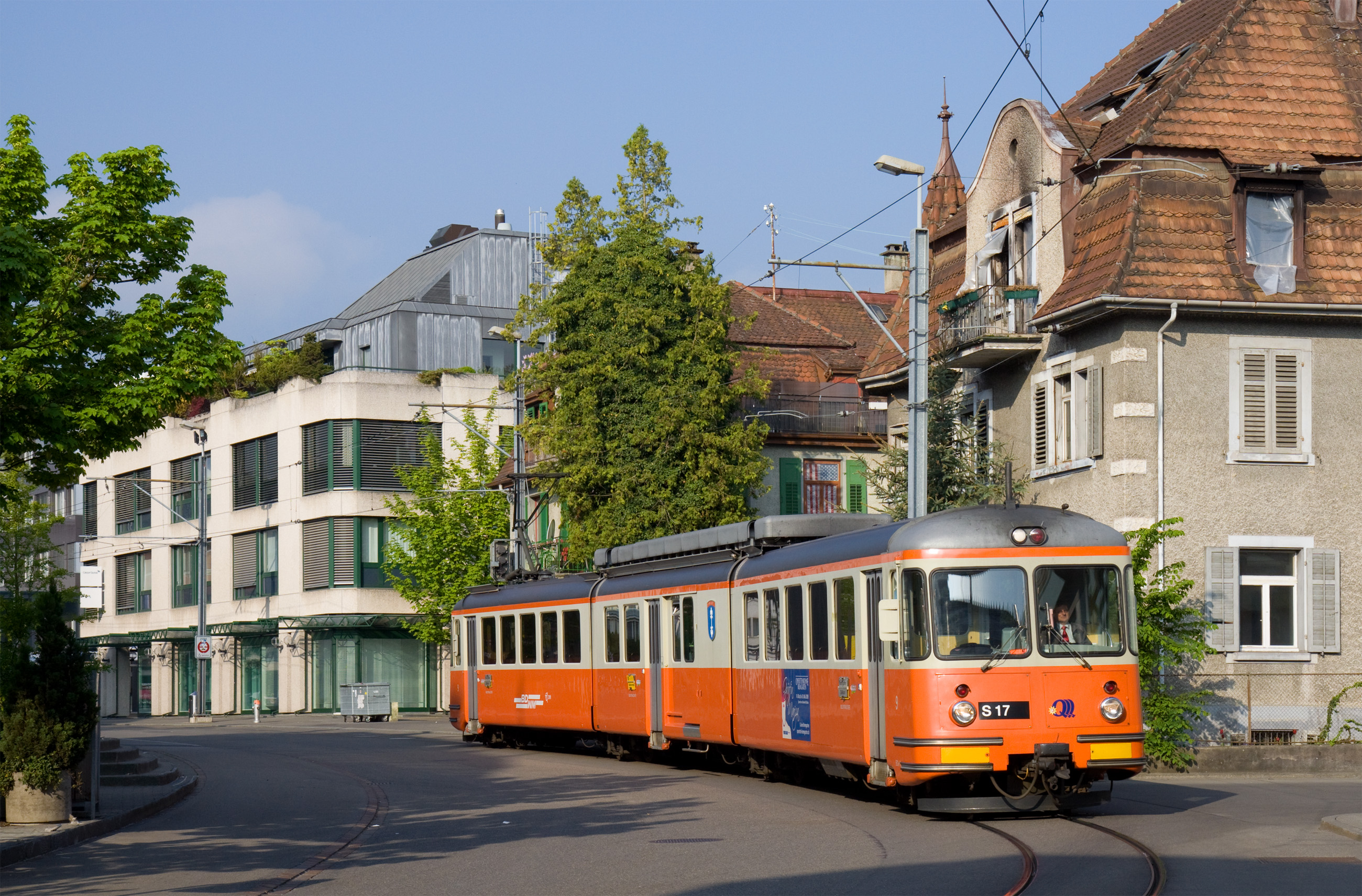 Bremgarten-Dietikon-Bahn train type BDe 8/8 on the tramway-like section through Dietikon, just before the terminal station.